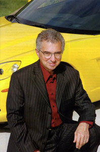 Vince Megna - Lemon Law Lawyer